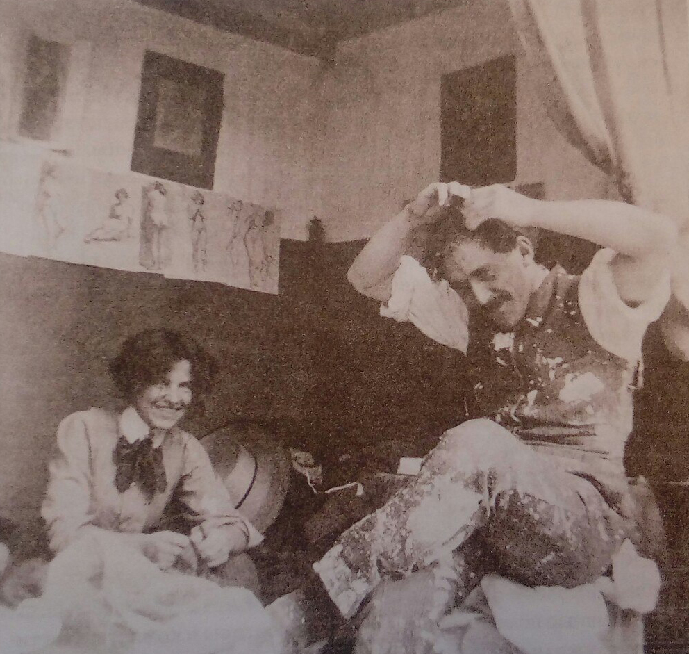 Signe-Hammarsten-Jansson and Viktor Jansson